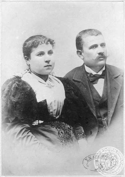 Theodoros Modis (Θεοδώρος Μόδης) a Greek Macedonian merchant and scholar of Monastir (Μοναστήρι Π. Γ. Δ. Μ) (modern Bitola, Битола) Macedonia. Died: 1904